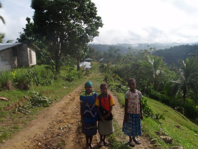 Drekikir Admin Primary School is located in East Sepik Province, near Wewak in Papua New Guinea. This school is participating in the EU-funded Improvement of Rural Primary Education Facilities (IRPEF) project, based in Madang.